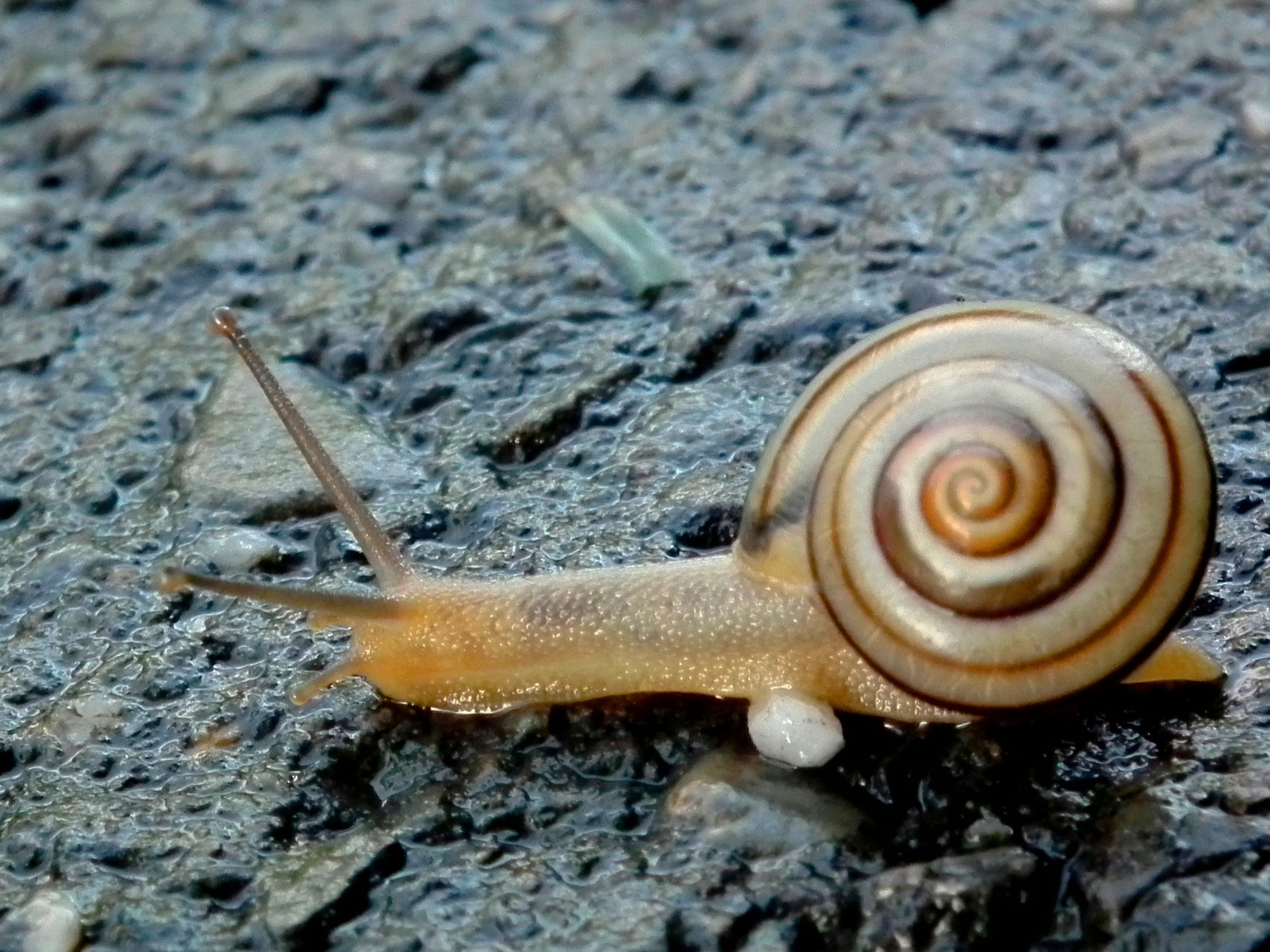 an unidentified land snail in Taiwan. Saw at a forest area of Taiwan. Related vide on Youtube